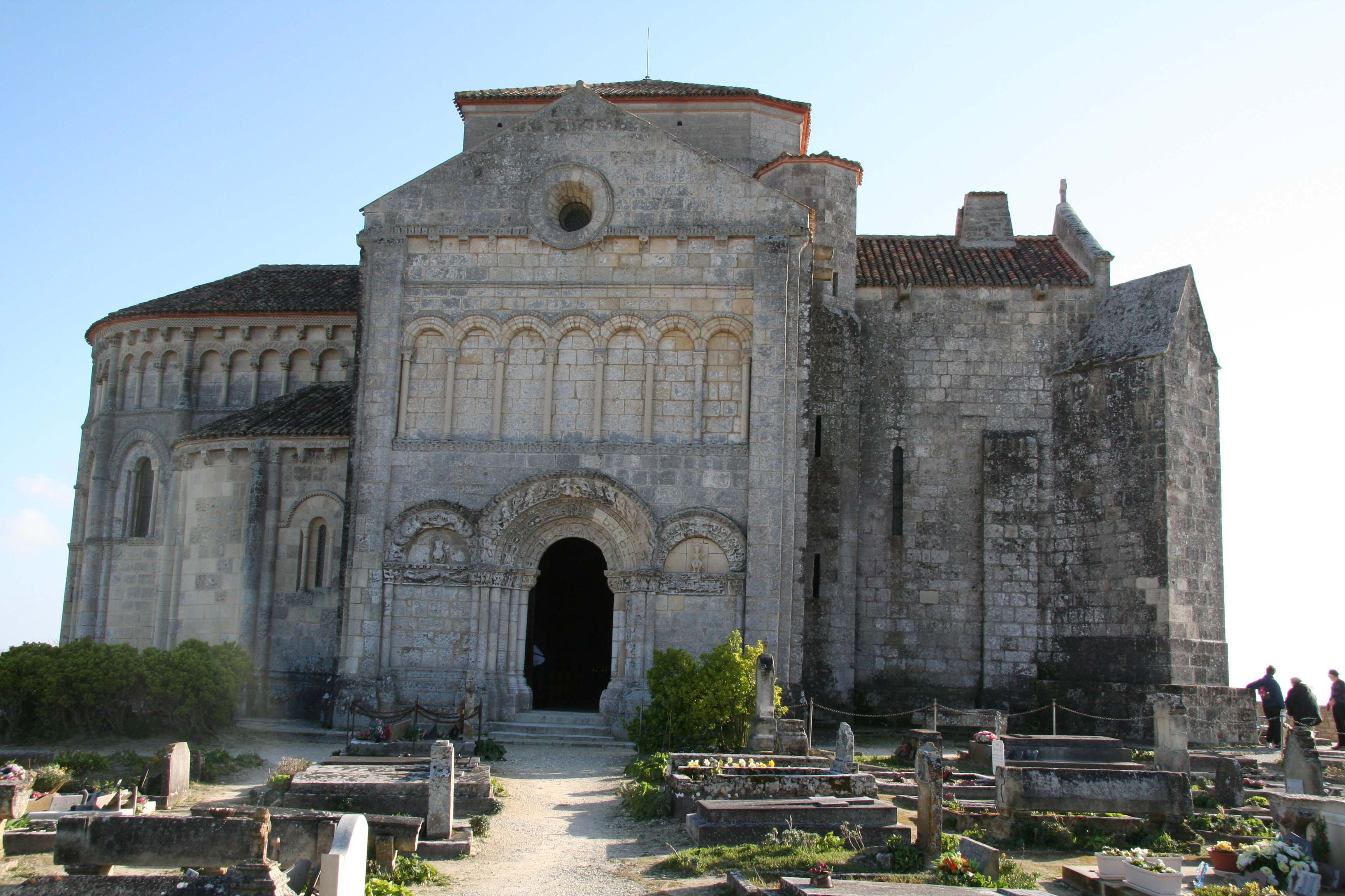 Église St-Radegonde originally built in the 12th century. Talmont-sur-Gironde, France.